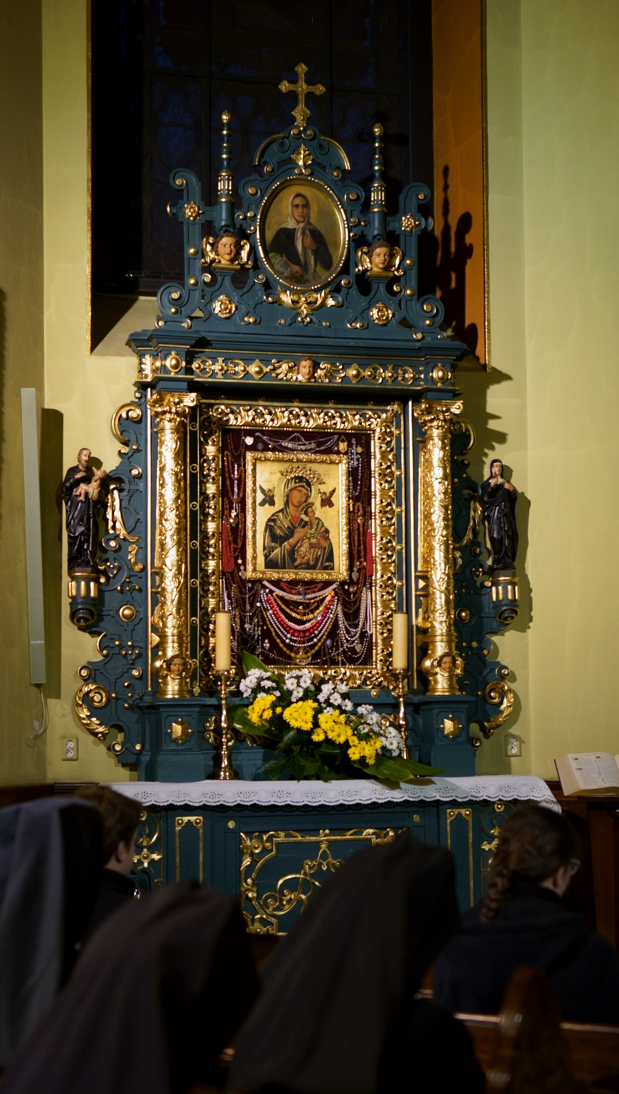 Church of Holy Heart of Jesus in Krakow (Garncarska St.)